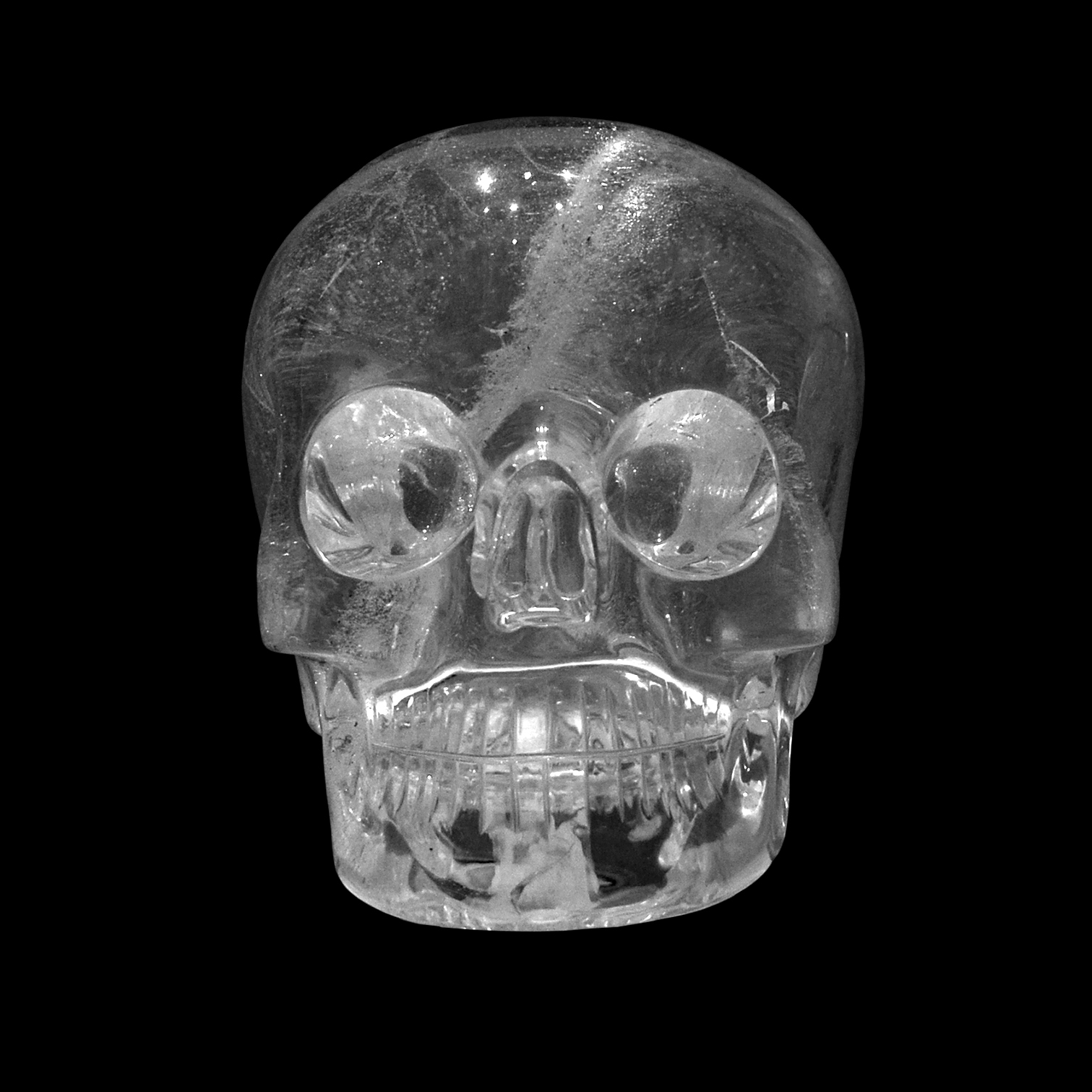 The British Museum's crystal skull .